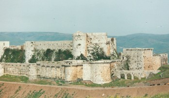 View of the fortress